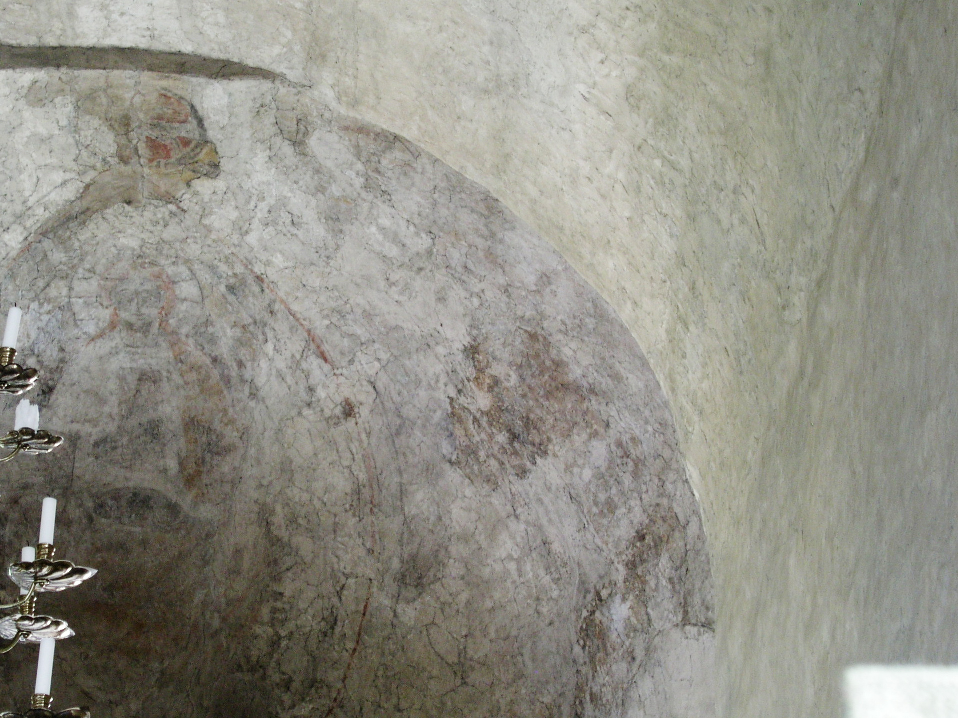 Resmo kyrka/church, Mörbylånga. Inside of apse. The photo was taken by Håkan Svensson (Xauxa) the 2nd of August 2005.